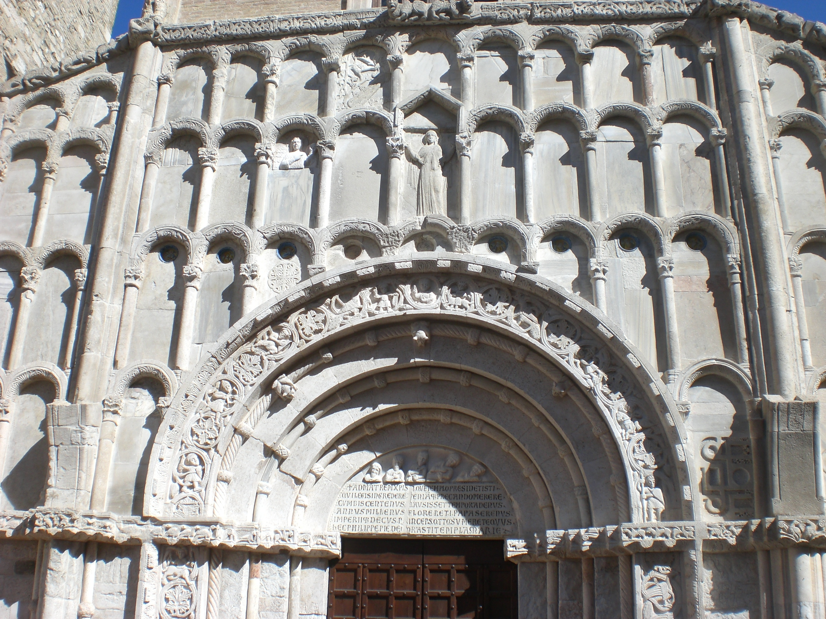 Ancona, St. Mary of the Square Church, Facade